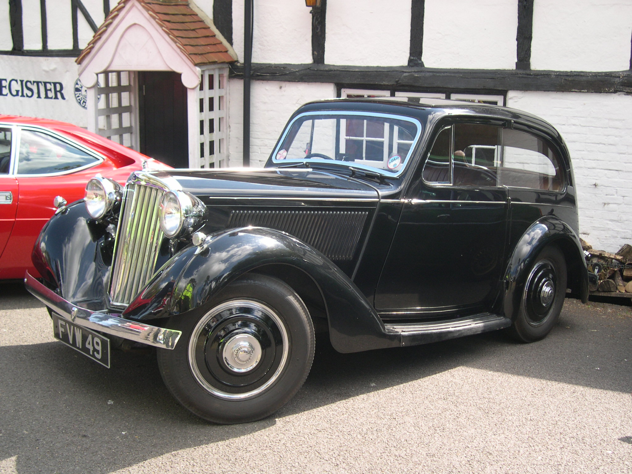 Talbot Ten pillarless 2-door saloon (DVLA) first registered 31 December 1937, 1141 cc Cars and Flahrs, April 2009 Horsham Historics